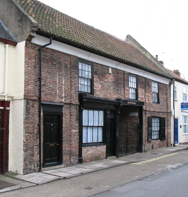 The Old Rectory, Victor Street. Set amongst Victorian terraced houses on Victor Street is this late 17th century house with a courtyard to the rear.